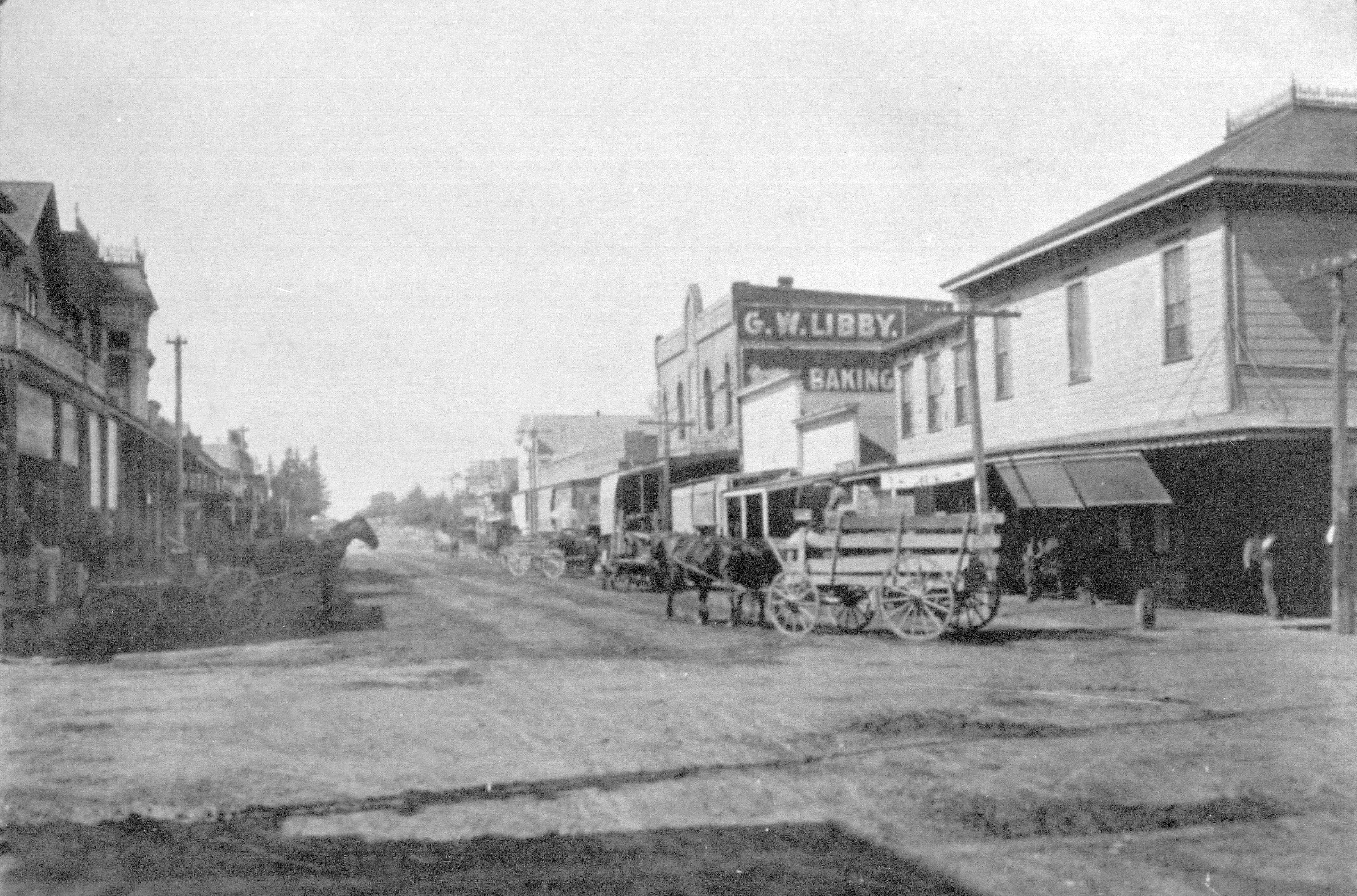 Main Street looking north, Sebastopol, California.